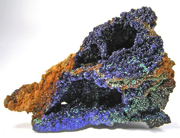 Azurite, Malachite Locality: Bisbee, Warren District, Mule Mts, Cochise County, Arizona, USA (Locality at ) Size: 10.9 x 8.9 x 6.4 cm. It is so hard to get ANYTHING from the old Bisbee locality these days. Some people think of it as the great American locality, and specimens from here are greatly prized. Here is a large specimen of the classic Bisbee association of azurite and malachite, in the form of micro-crystals on a platy matrix of limonite. The malachite looks as though it has been sprinkled over the limonite and azurite.